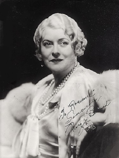 Mary Boland, foto promozionale